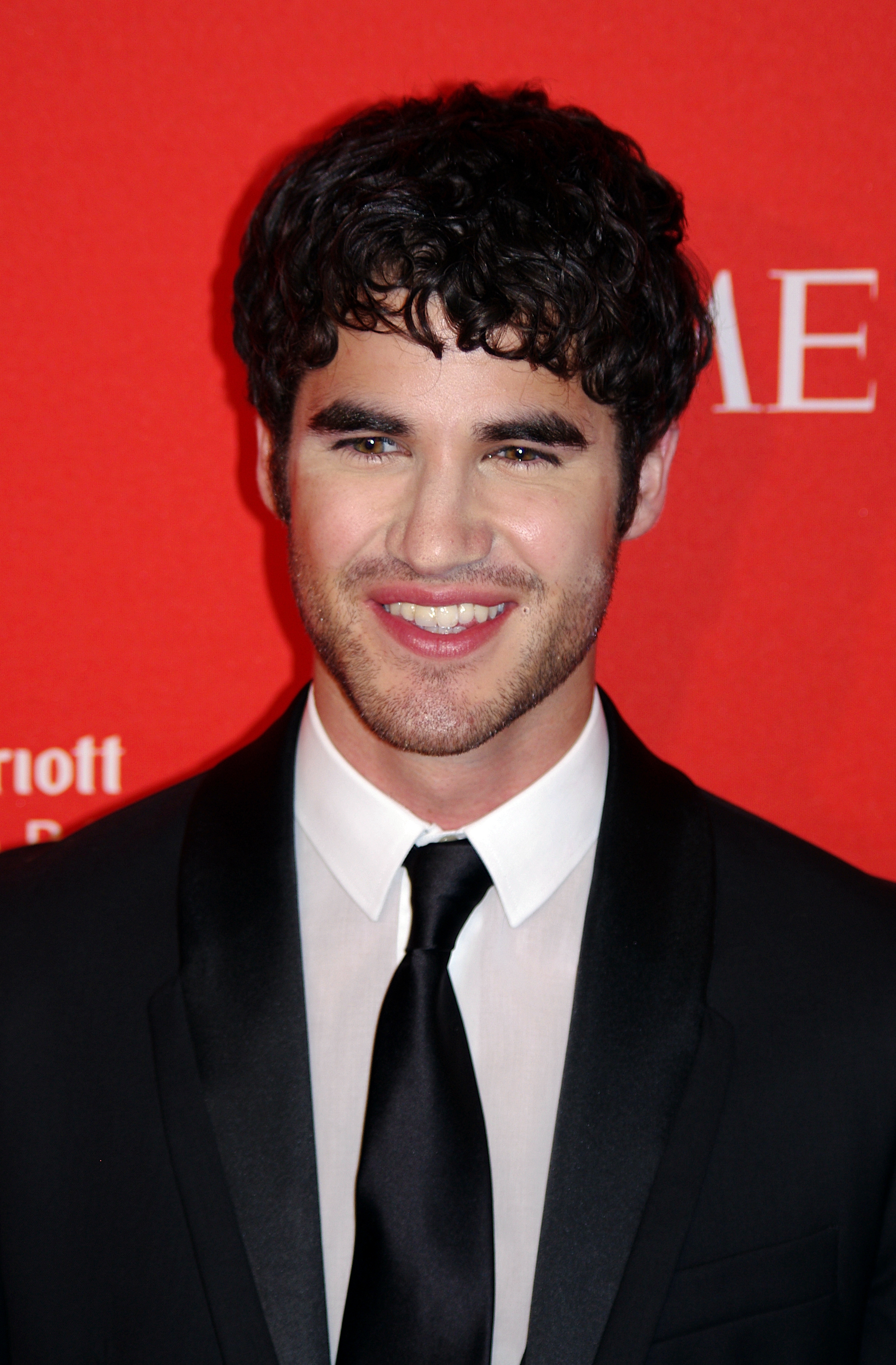 Darren Criss at the 2011 Time 100 gala.